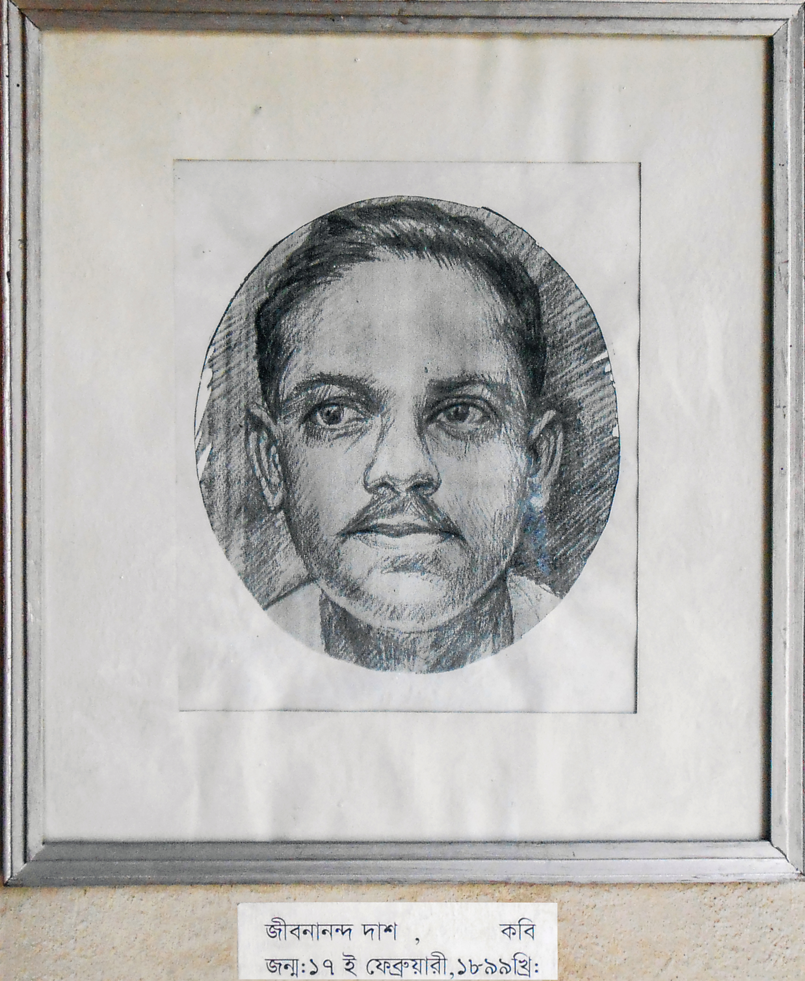 Portrait of poet Jibanananda Das, Ethnological Museum, Chittagong.